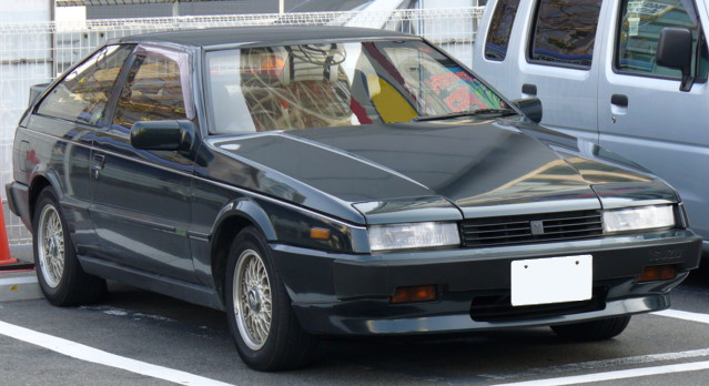 1981–1989 Isuzu Piazza